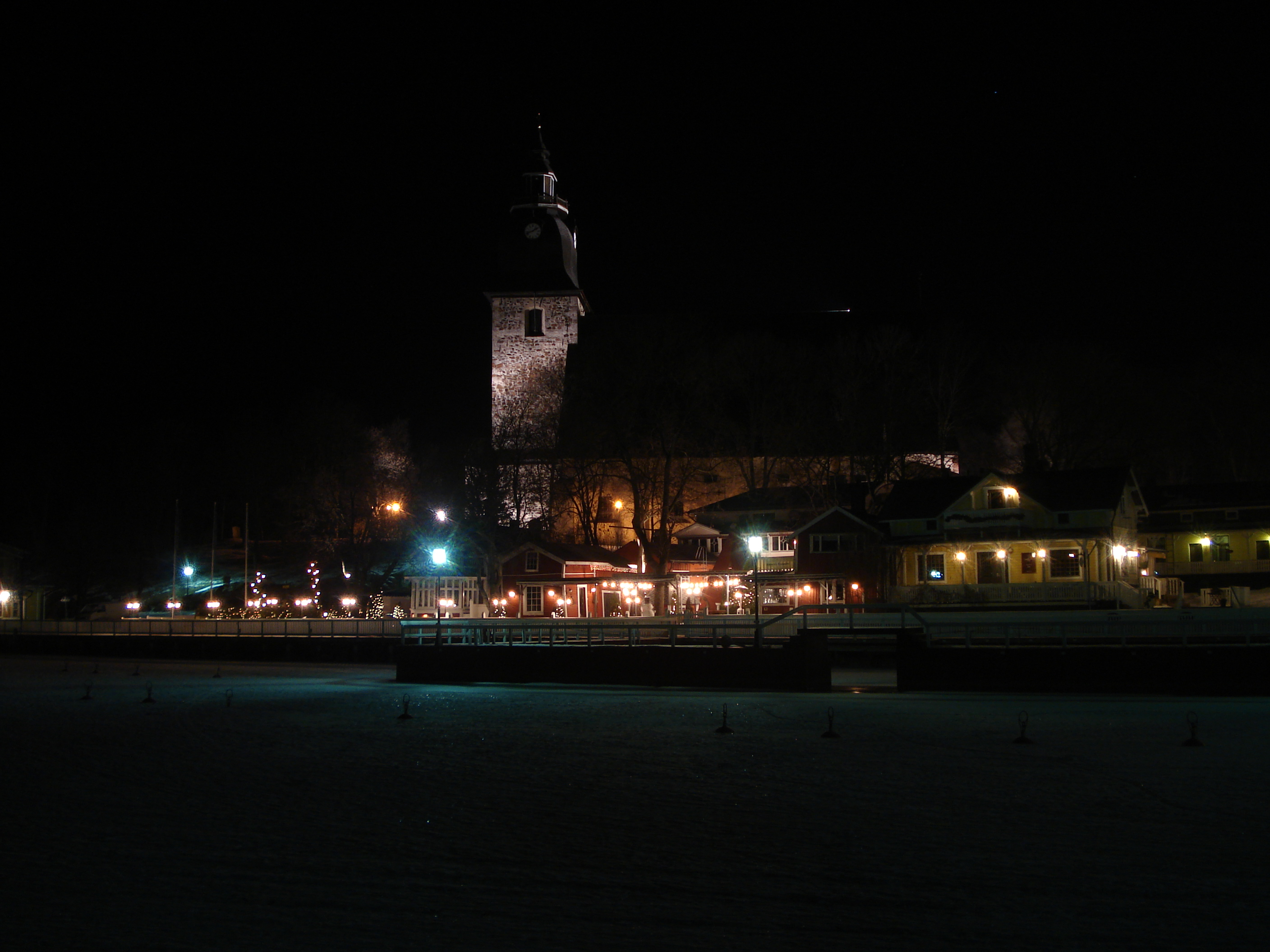 Church of Naantali at Naantali, Finland.